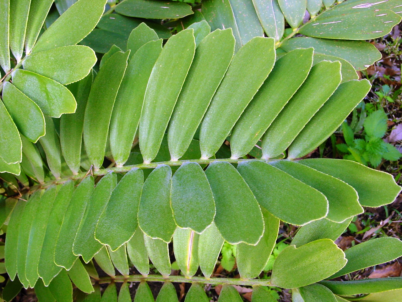 The Cardboard Palm in the Botanical Garden, Palermo